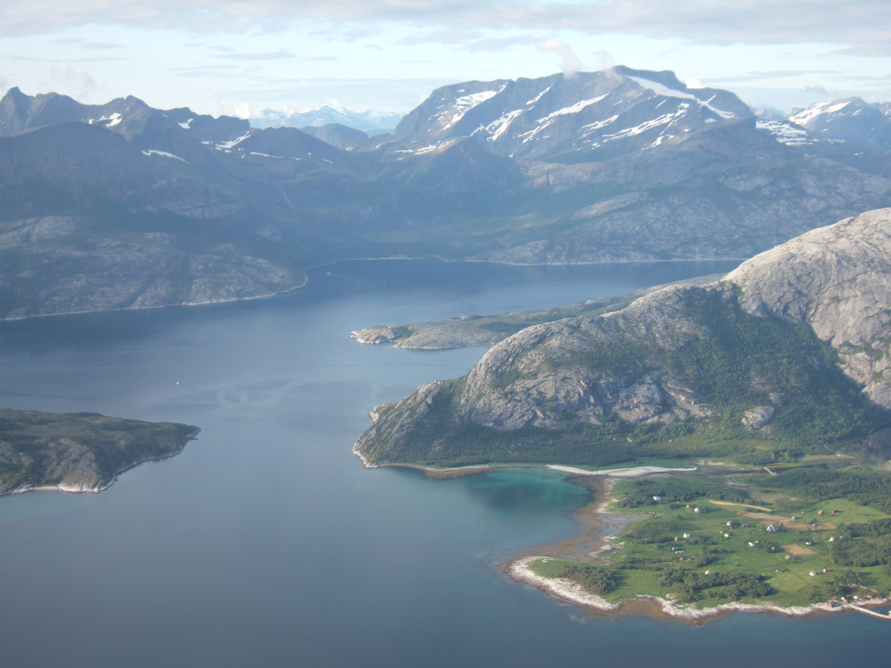 Sagfjorden in Sørfold, Nordland, Norway